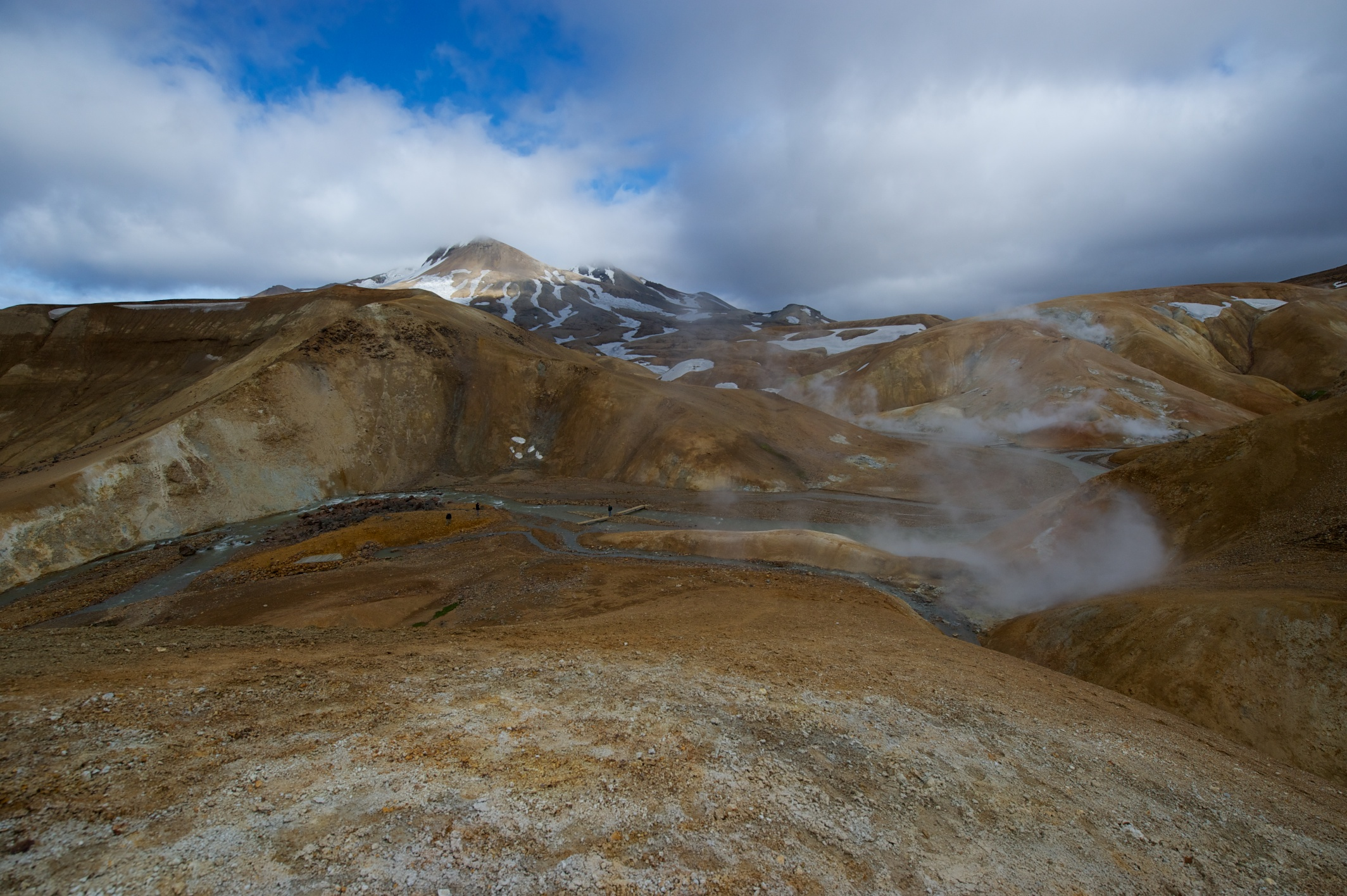 Picture taken by me, Michele Perillo, in Krlingarfjoll Iceland, June 2010. I release this pictures under the Cc-by-sa-3.0